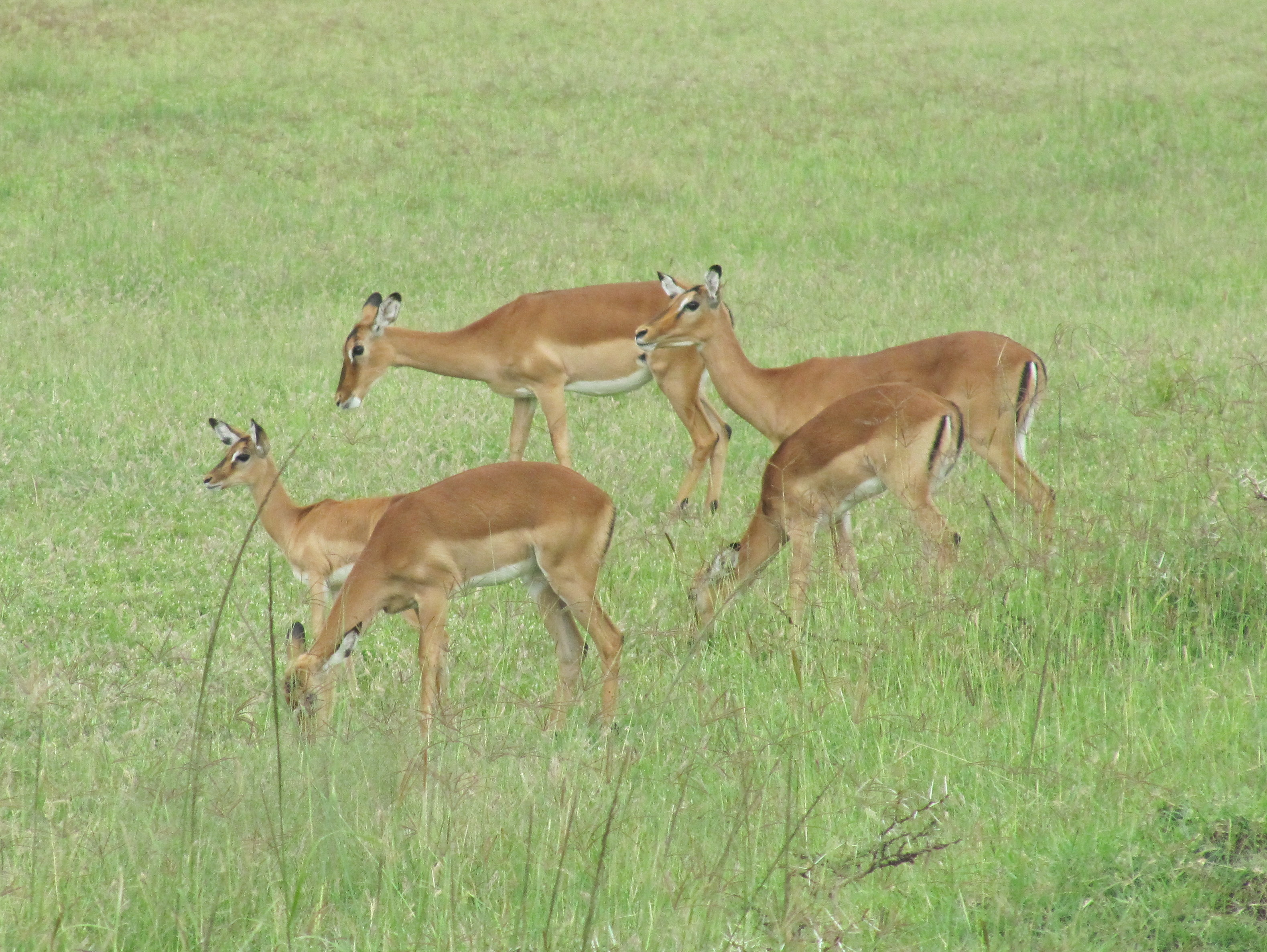 Female Impalas in Lake Nakuru National Park, Kenya